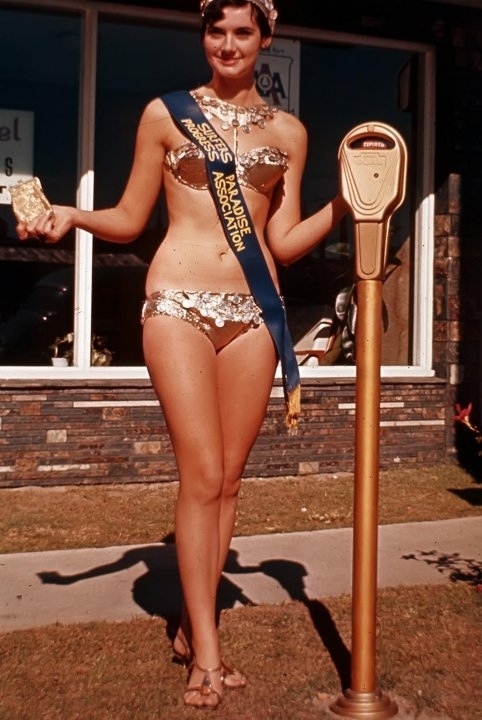 Meter Maid 1970